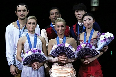 The pair skating at the 2013-2014 Grand Prix of Figure Skating Final. From left: Tatiana Volosozhar/ Maxim Trankov (2nd), Aliona Savchenko / Robin Szolkowy (1st), Pang Qing / Tong Jian (3rd).